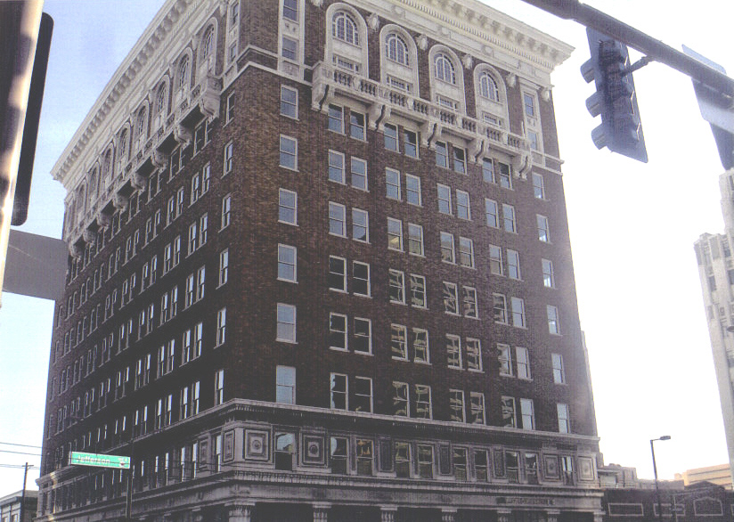 The Luhrs Building is an historic ten-story building located at 11 West Jefferson in downtown Phoenix, Arizona. Listed in the National Register of Historic Places in 1985.